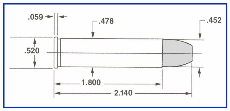 Diagram of .45 BPM firearm cartridge. Maximum dimensions specified.